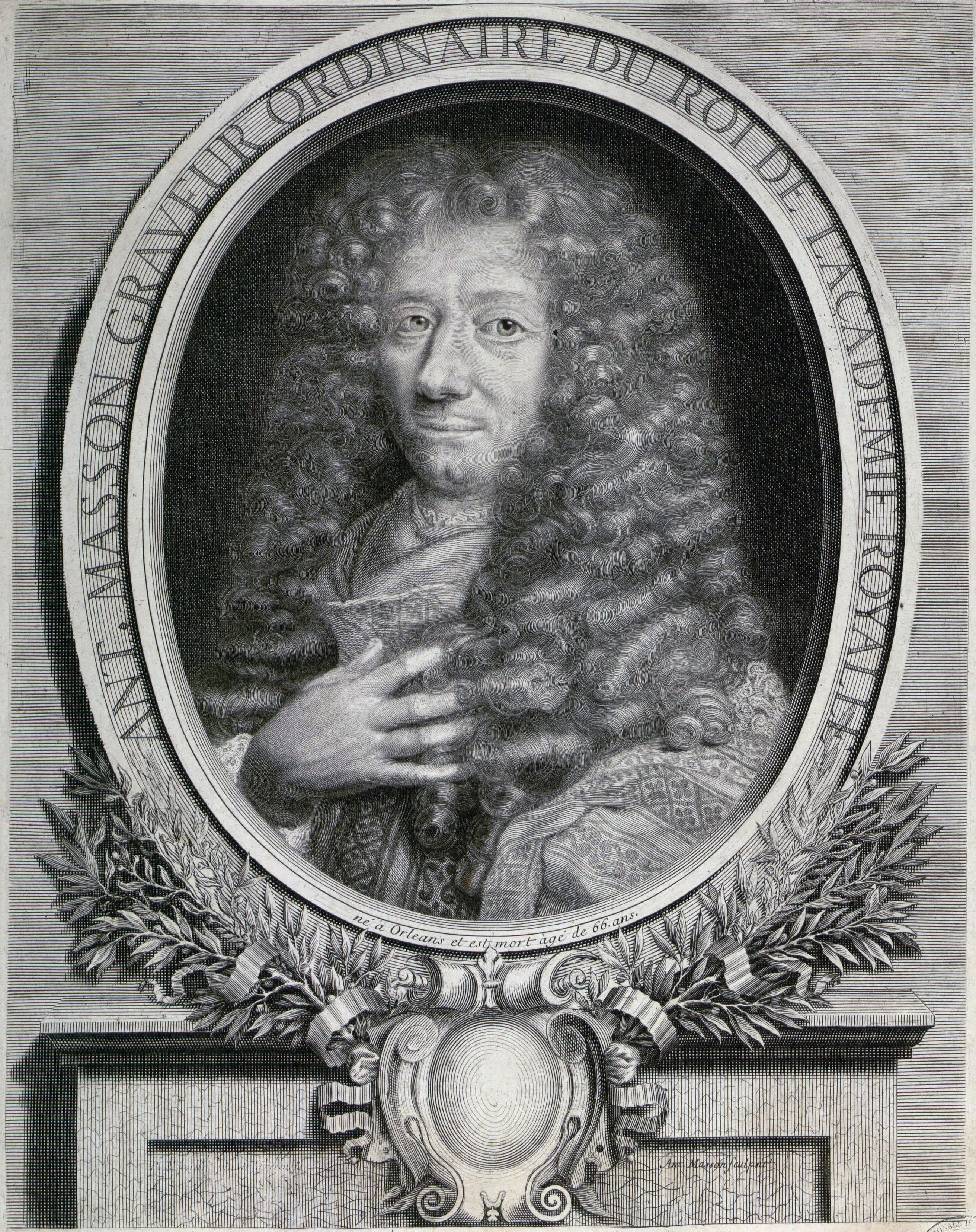 Portrait of Antoine Masson